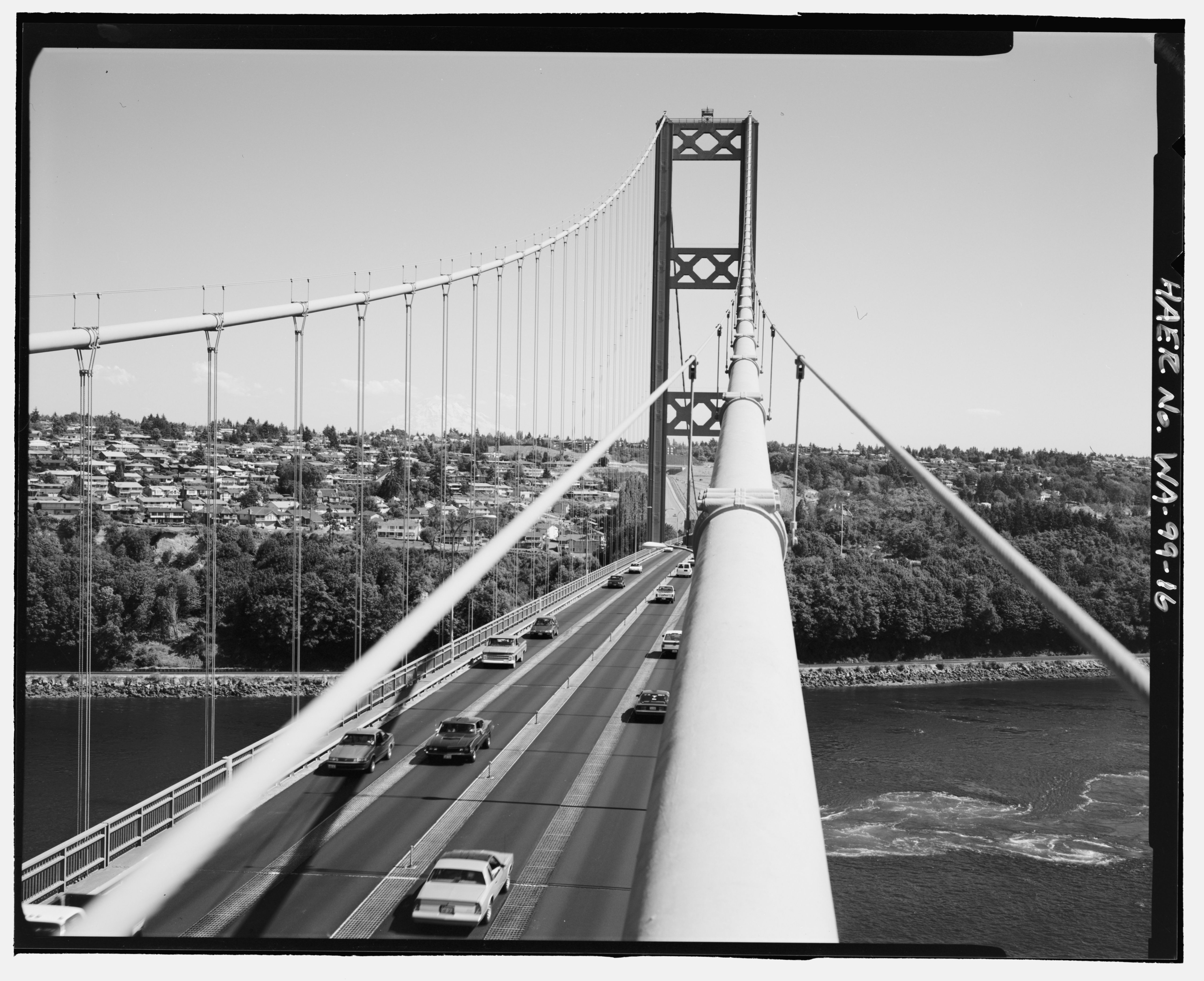 Tacoma Narrows Bridge, Spanning Narrows at State Route 16, Tacoma, Pierce County, WA.